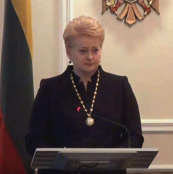 President of Lithuania, Dalia Grybauskaitė, wearing the Order of the Republic, Republic of Moldova's highest order